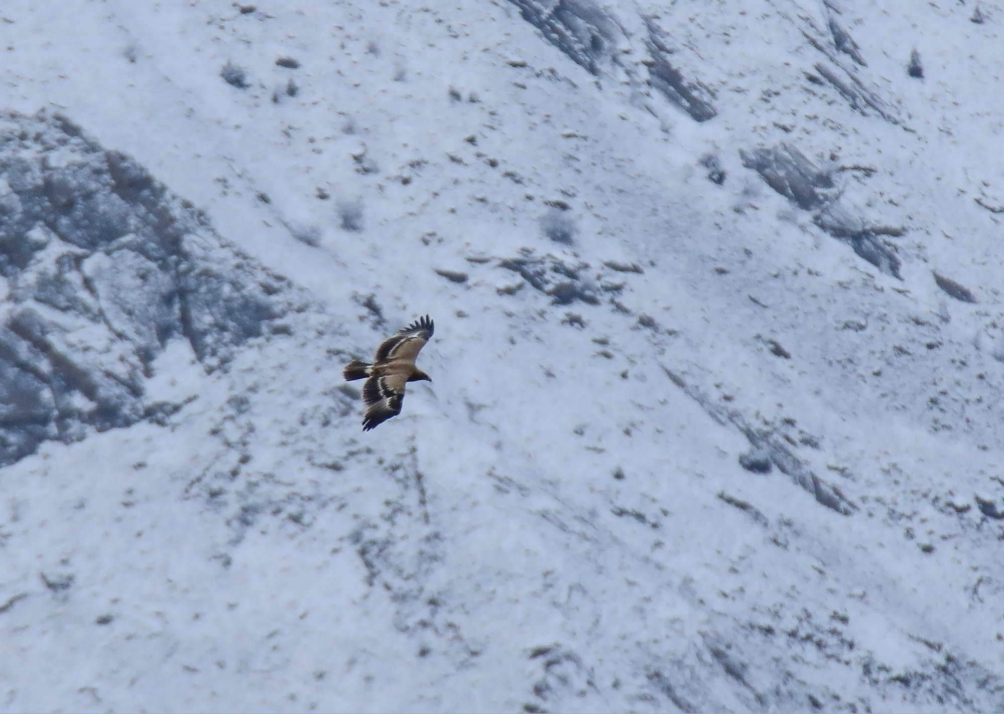 Steppe Eagle (Aquila nipalensis) captured at Aliabad, Hunza, Gilgit-Baltistan, Pakistan with Canon EOS 7D Mark II